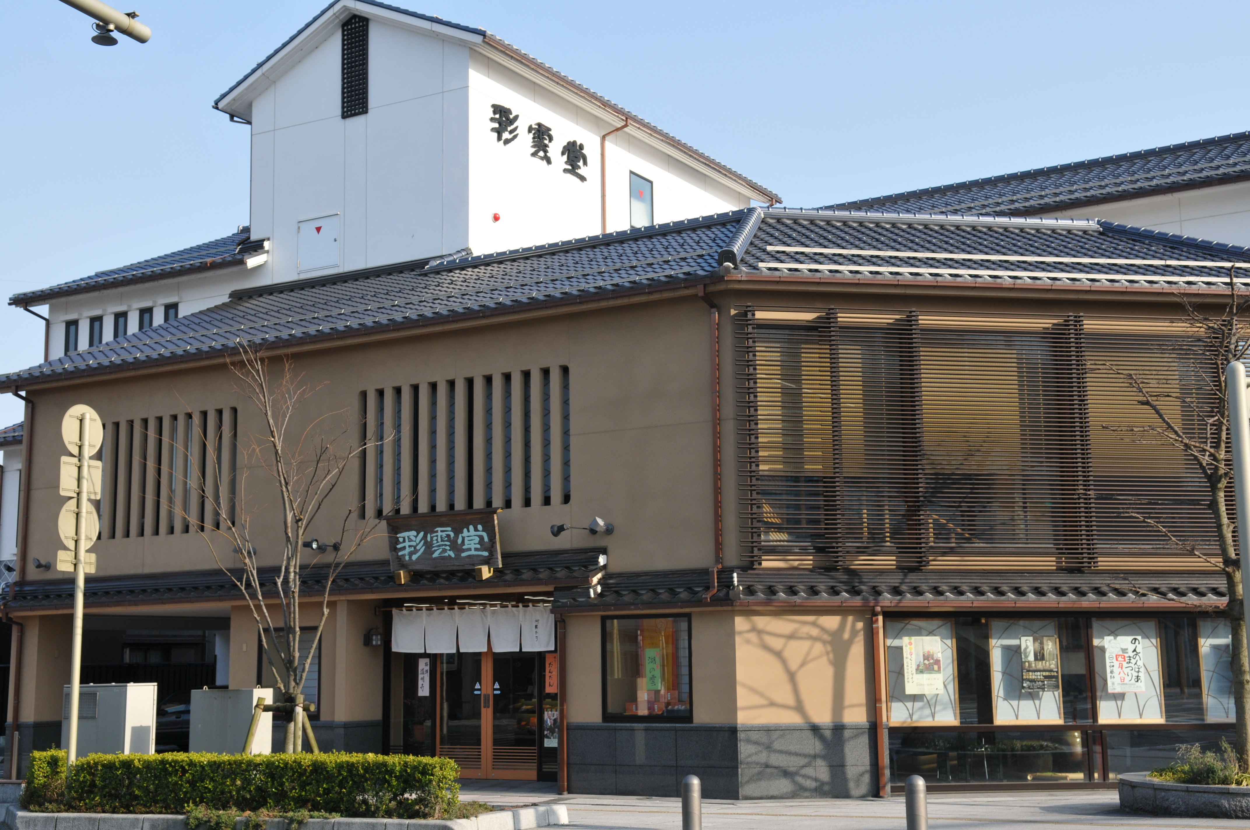 Saiundo, Japanese sweets shop, in Matsue city, Shimane pref Japan